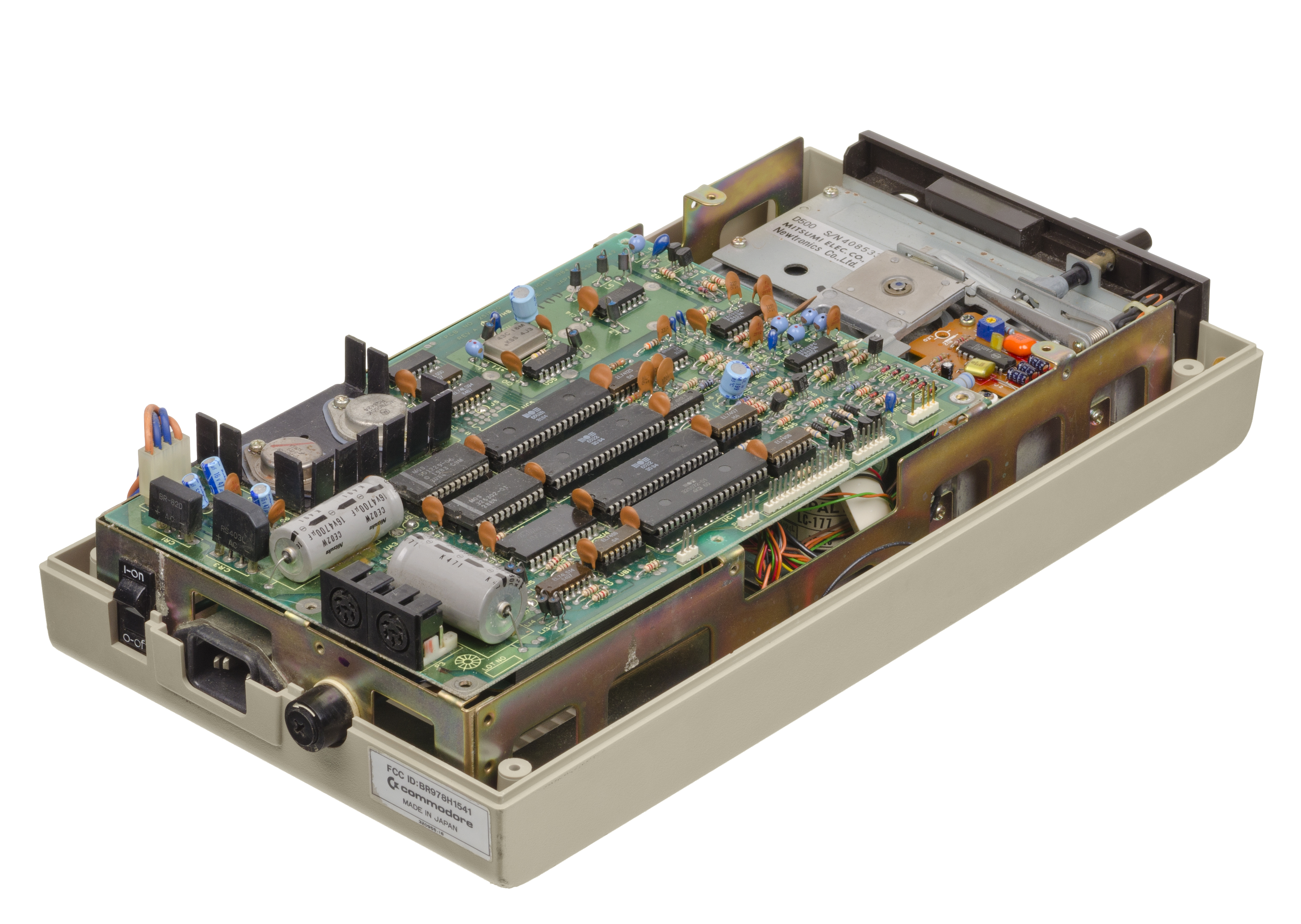 The Commodore 1541 (with the top cover and shielding removed), the official 5¼" floppy drive for the Commodore 64 8-bit home computer. Introduced in 1982, the drive retailed for $400 at launch.